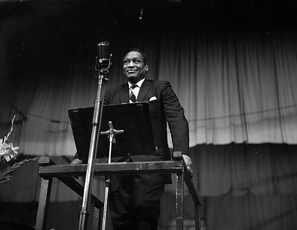 Paul Robeson onstage during the 1958 National Eisteddfod of Wales, Ebbw Vale.